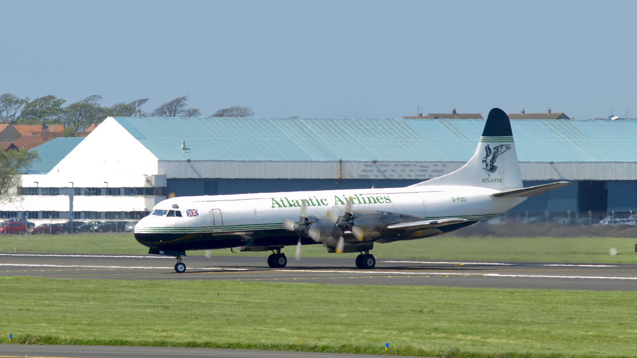 Atlantic Airlines Lockheed L-188C Electra G-FIZU